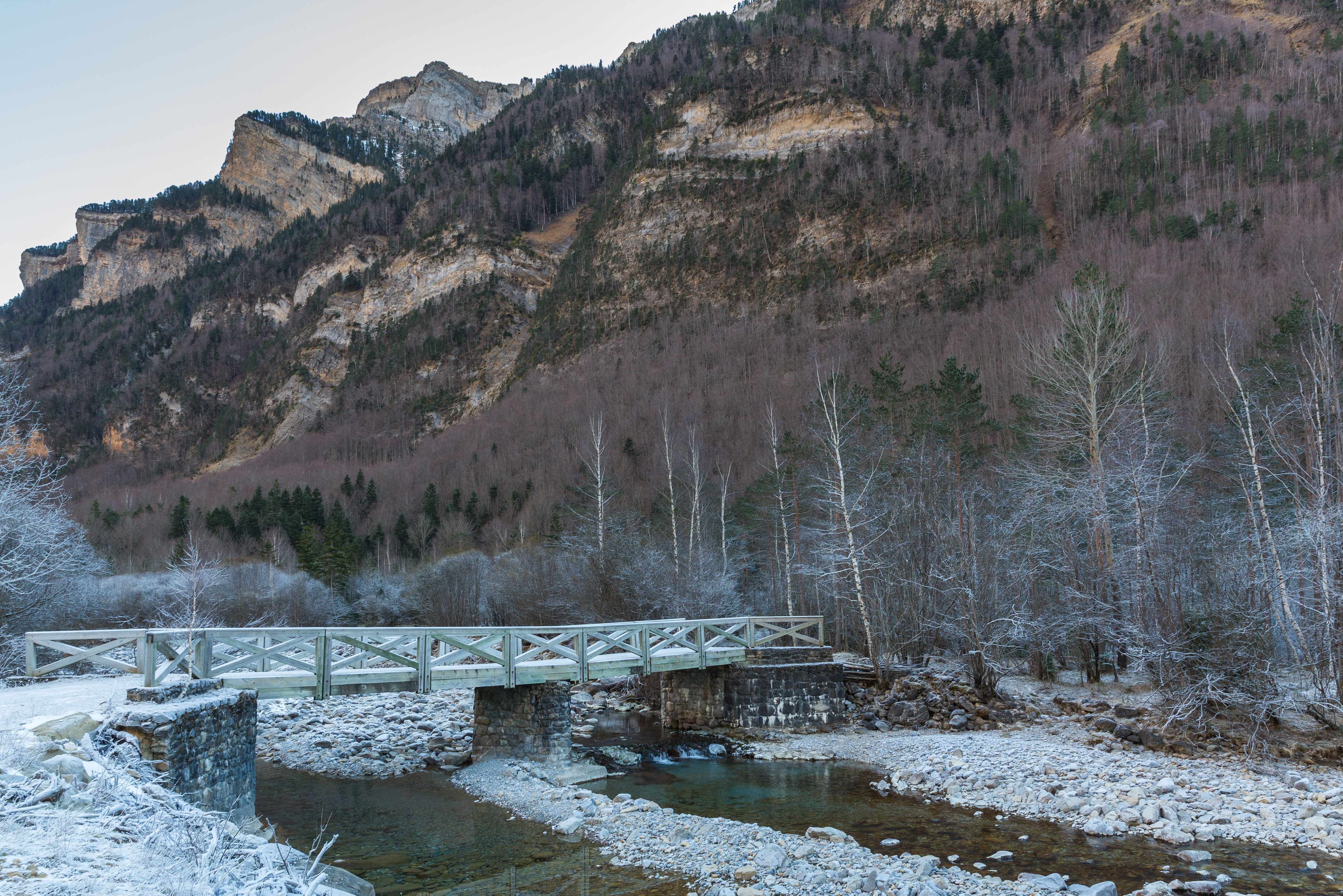 Ordesa y Monte Perdido National Park, Huesca, Spain